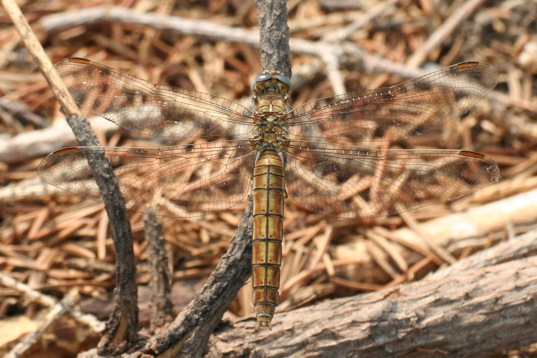 Female Brown Skimmer dragonfly (Orthetrum brunneum), photographed in Weinsberg